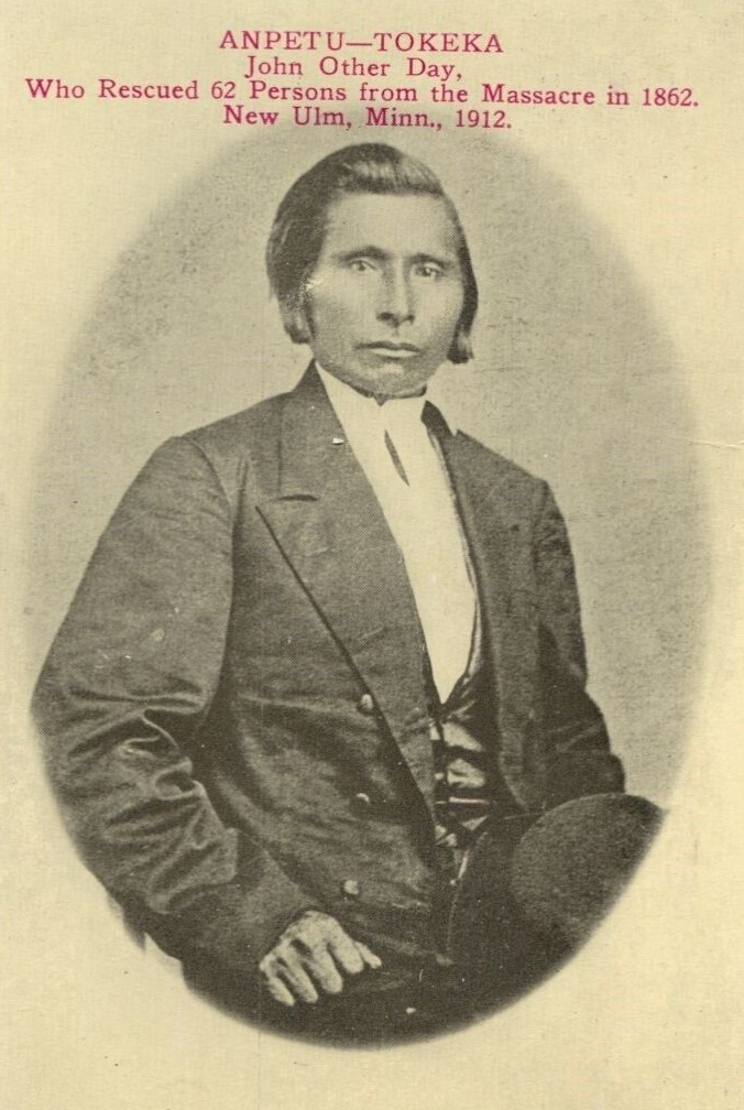 1912 postcard labeled "ANPETU—TOKEKA John Other Day, Who rescued 62 persons from the massacre in 1862. New Ulm, Minnesota, 1912."